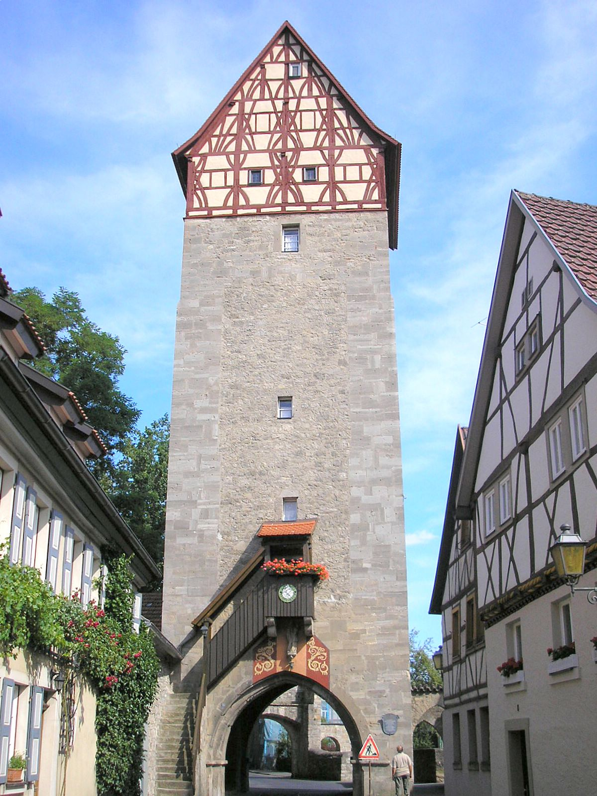 Münnerstadt (Landkreis Bad Kissingen, Lower Franconia, Germany). The "Jörgentor" (Eastern gate of the medieval city walls)